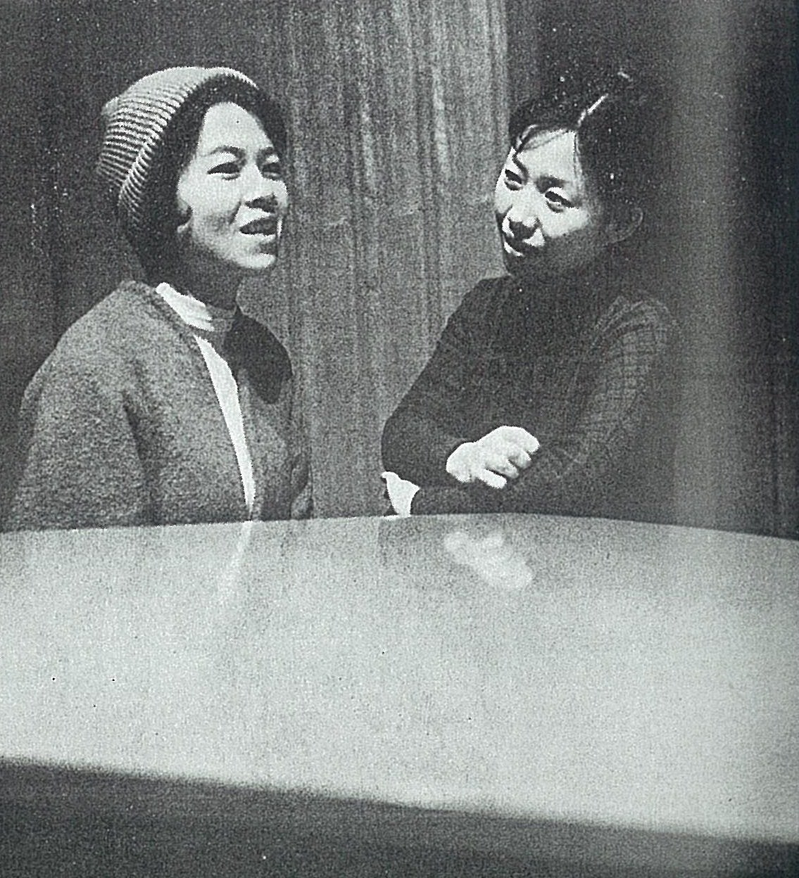 (Left) Kazuko Imai is a Japanese actress and voice actress. (Right) Kyoko Kishida Janpanese actress and voice actress.